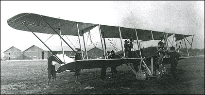 Photo of Sikorsky S-10 aircraft land based circa 1913